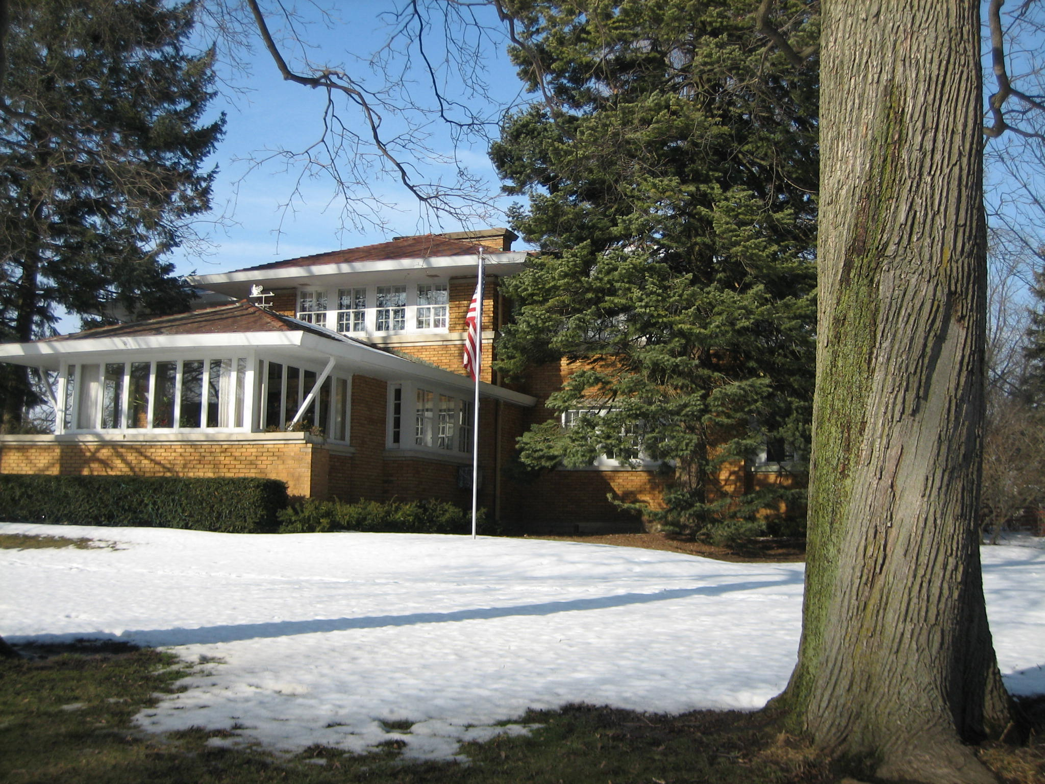 A.O. Anderson House, designed by John S. Van Bergen circa 1913, 233 Augusta Ave.